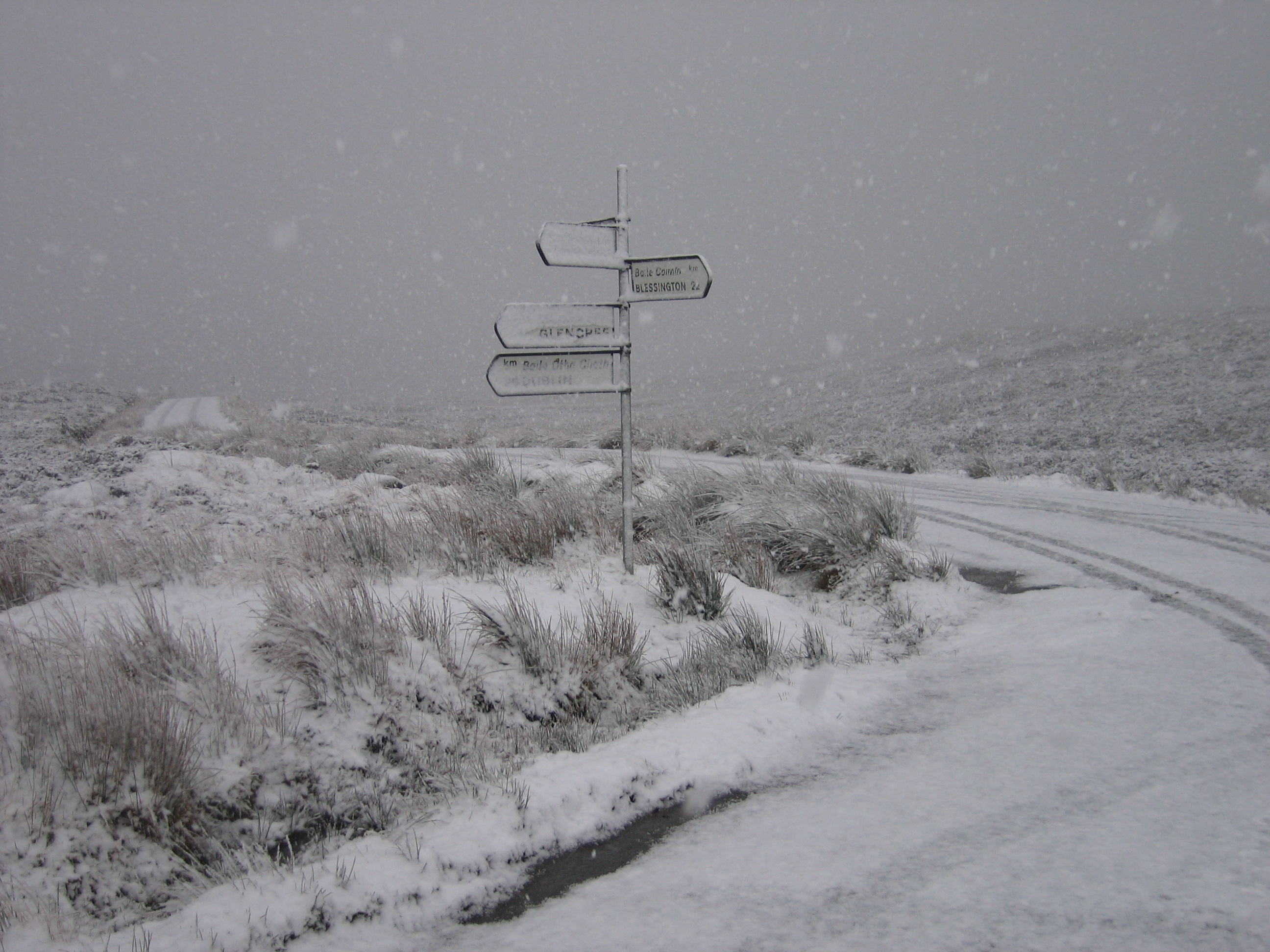 The "Military Road" R115/R759 crossroads at Sally Gap, Ireland.